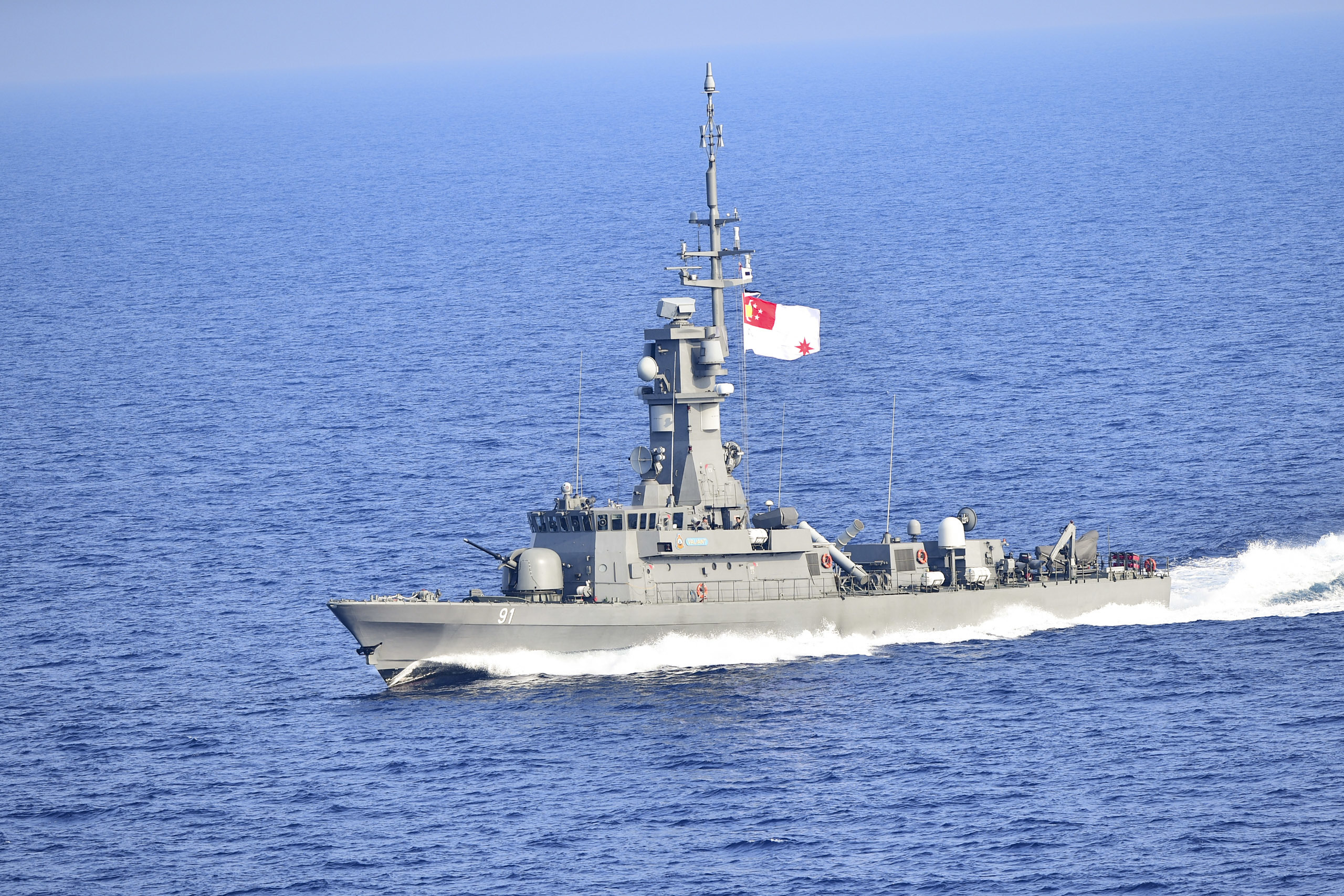 180406-N-NK192-1242 SOUTH CHINA SEA (April 6, 2018) Republic of Singapore Navy Victory-class corvette RSS Valiant (PGG 91) sails next to the aircraft carrier USS Theodore Roosevelt (CVN 71). Theodore Roosevelt is currently underway for a regularly scheduled deployment in the U.S. 7th Fleet area of operations in support of maritime security operations and theater security cooperation efforts. (U.S. Navy photo by Mass Communication Specialist Seaman Michael Colemanberry/Released)